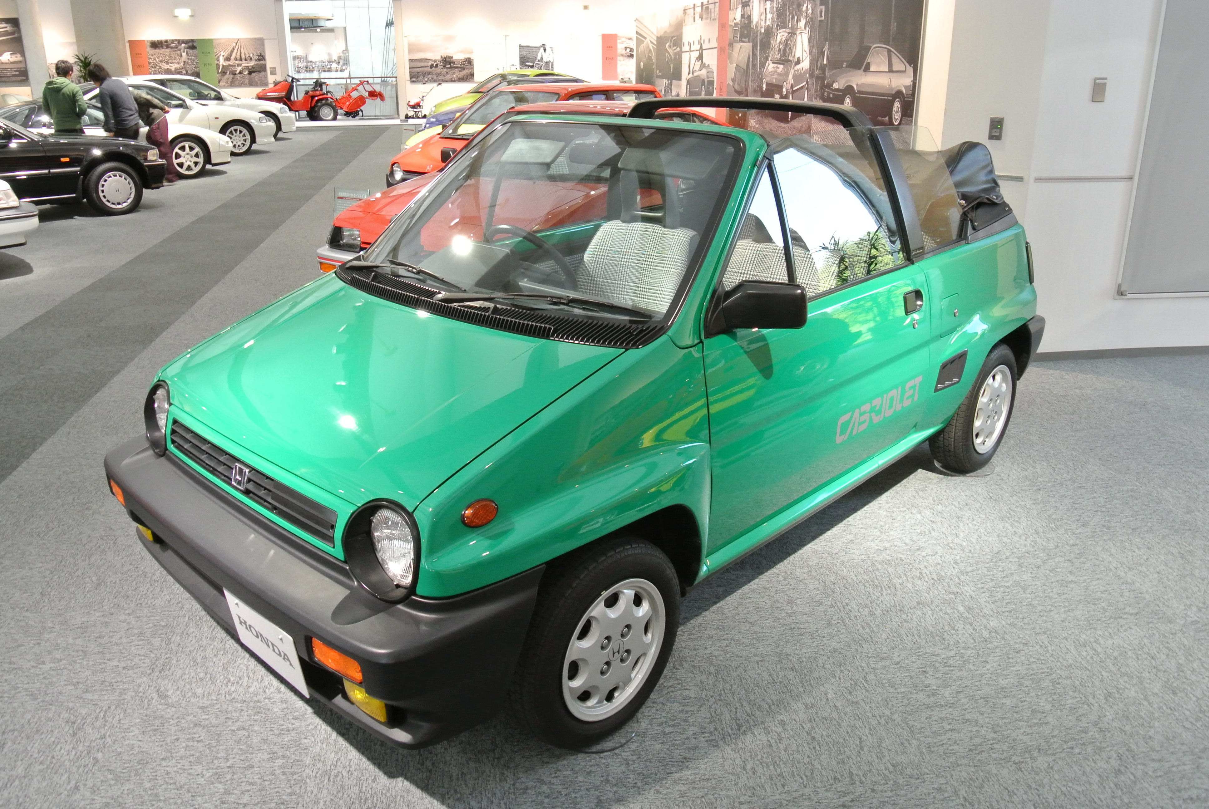 Honda CITY CABRIOLET in the Honda Collection Hall.